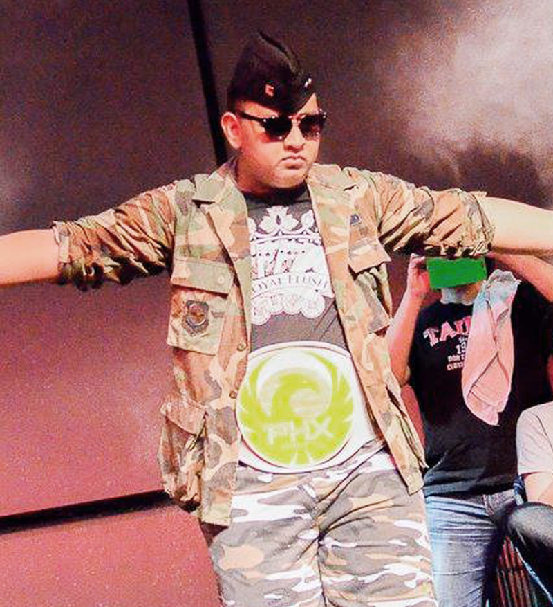 Current PHX Champion and member of the Royal Flush